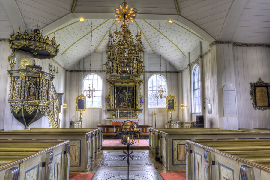 Piteå Stadskyrka, interiör. The pulpit was made by Nils Jacobsson Fluur in the late 1690s. Interior of Piteå Stadskyrka, Sweden.